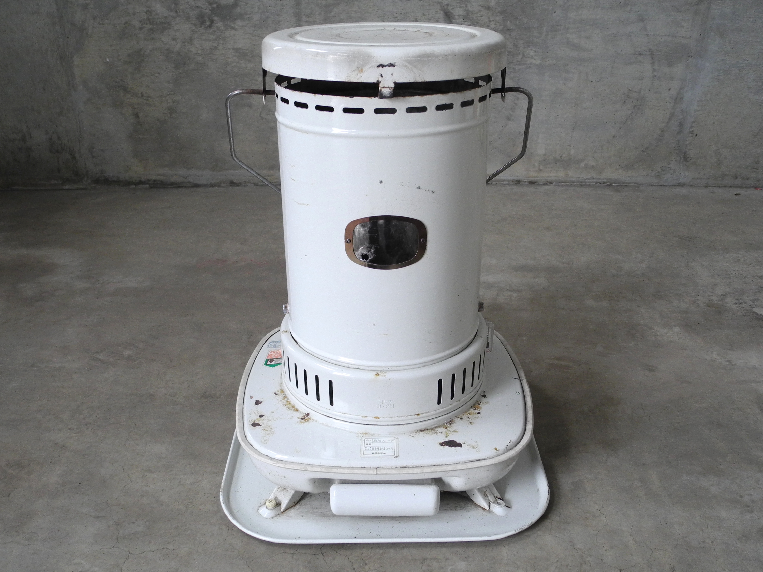 Old Japanese kerosene heater that doesn't need electricity. Formerly used in a Japanese junior high school.